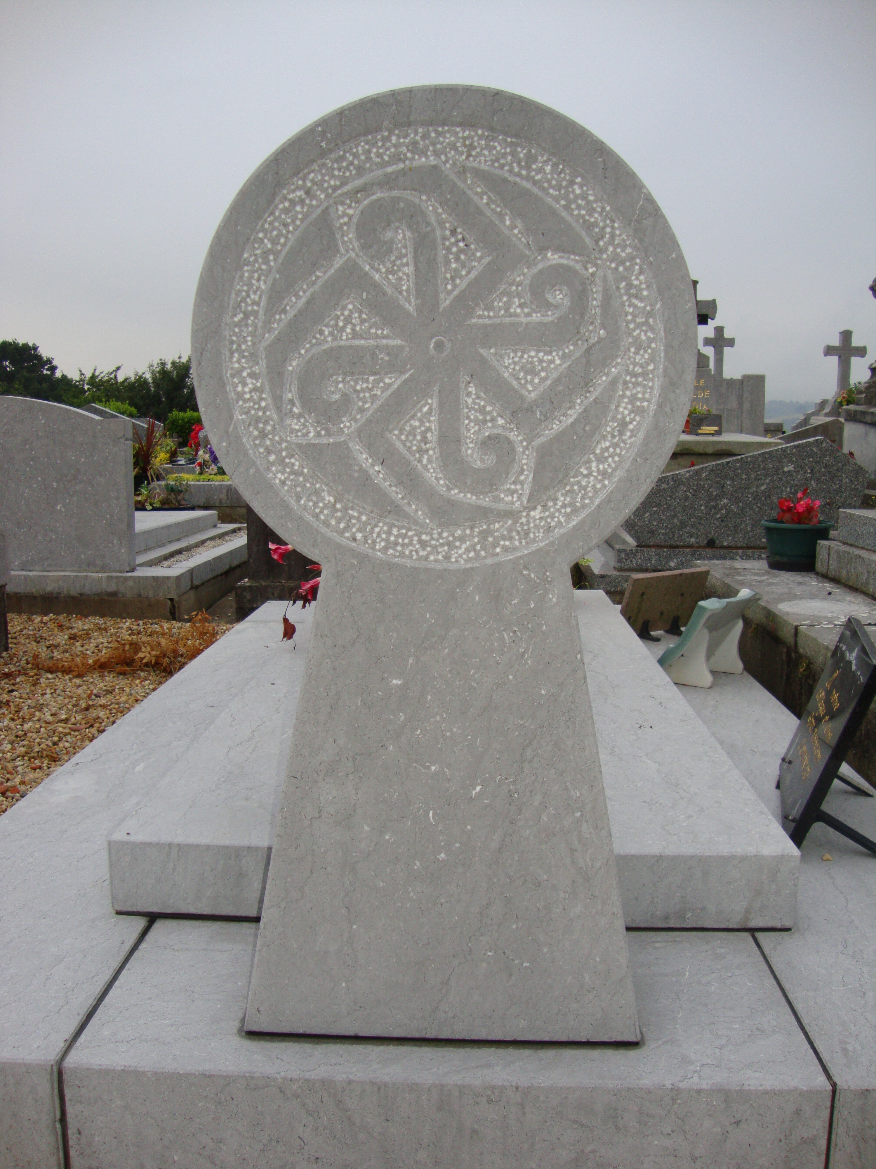 Béhasque_(Béhasque-Lapiste, Pyr-Atl,_Fr) stele discoïdale